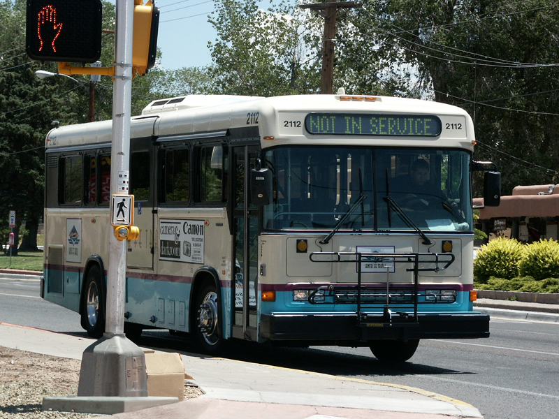 Santa Fe Trails Blue Bird CSRE bus #2112 on Cerrillos Road. Photo by camerafiend.